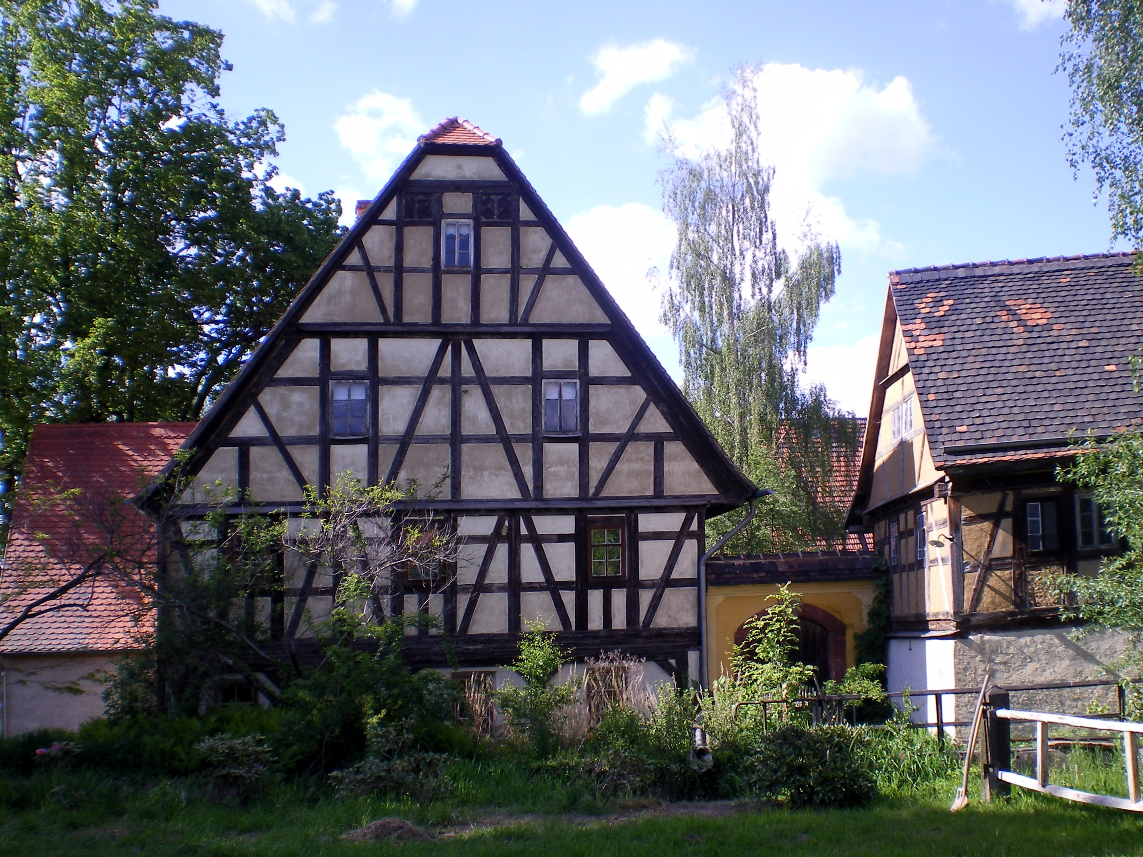 Timber framing estate in Frohnsdorf near Altenburg/Thuringia